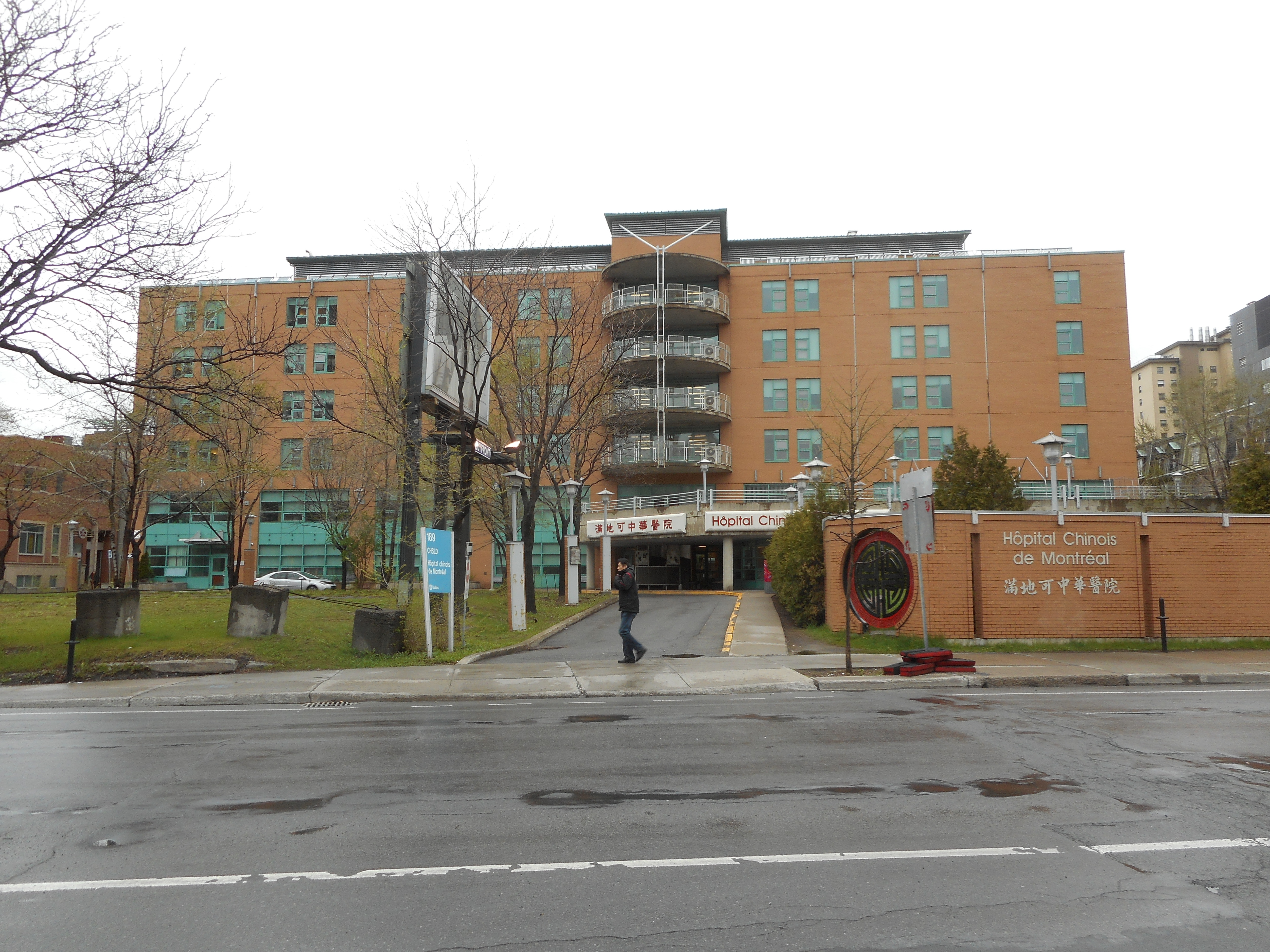 Montreal Chinese Hospital